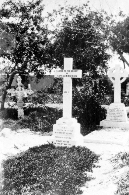 The headstone erected over the grave of Captain Gordon Clunes Mackay Mathison MB BS, MD, DSc, FRCP (1883-1915), No 2 Field Ambulance, Australian Army Medical Corps, in Chatby War Memorial Cemetery, Alexandria, Egypt who died of wounds received in action at Cape Helles on 10 May 1915.